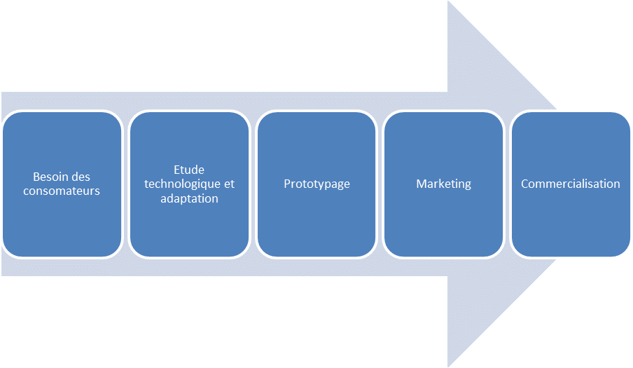 Market pull